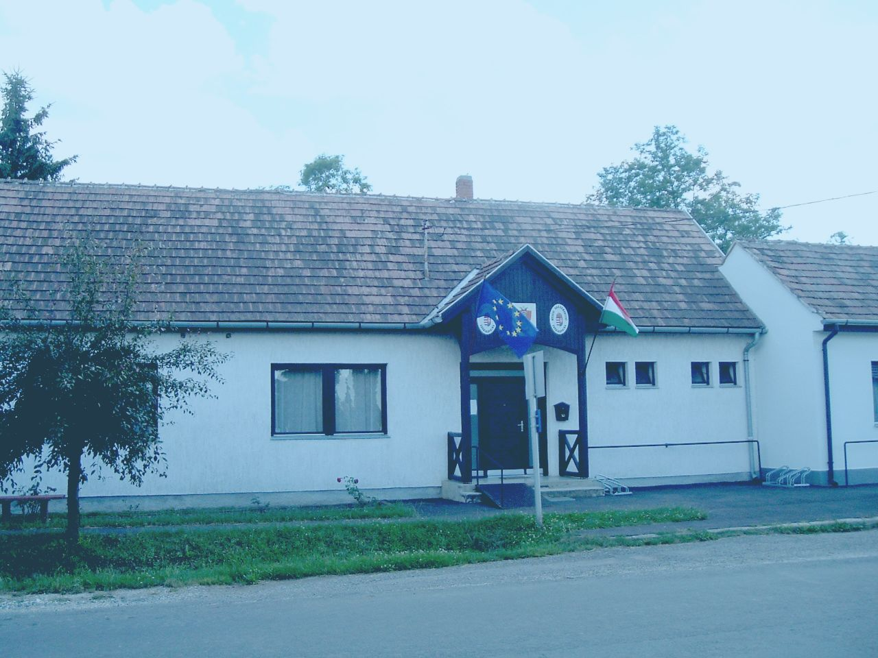 The Mayor's Office in Sorkikápolna, Hungary